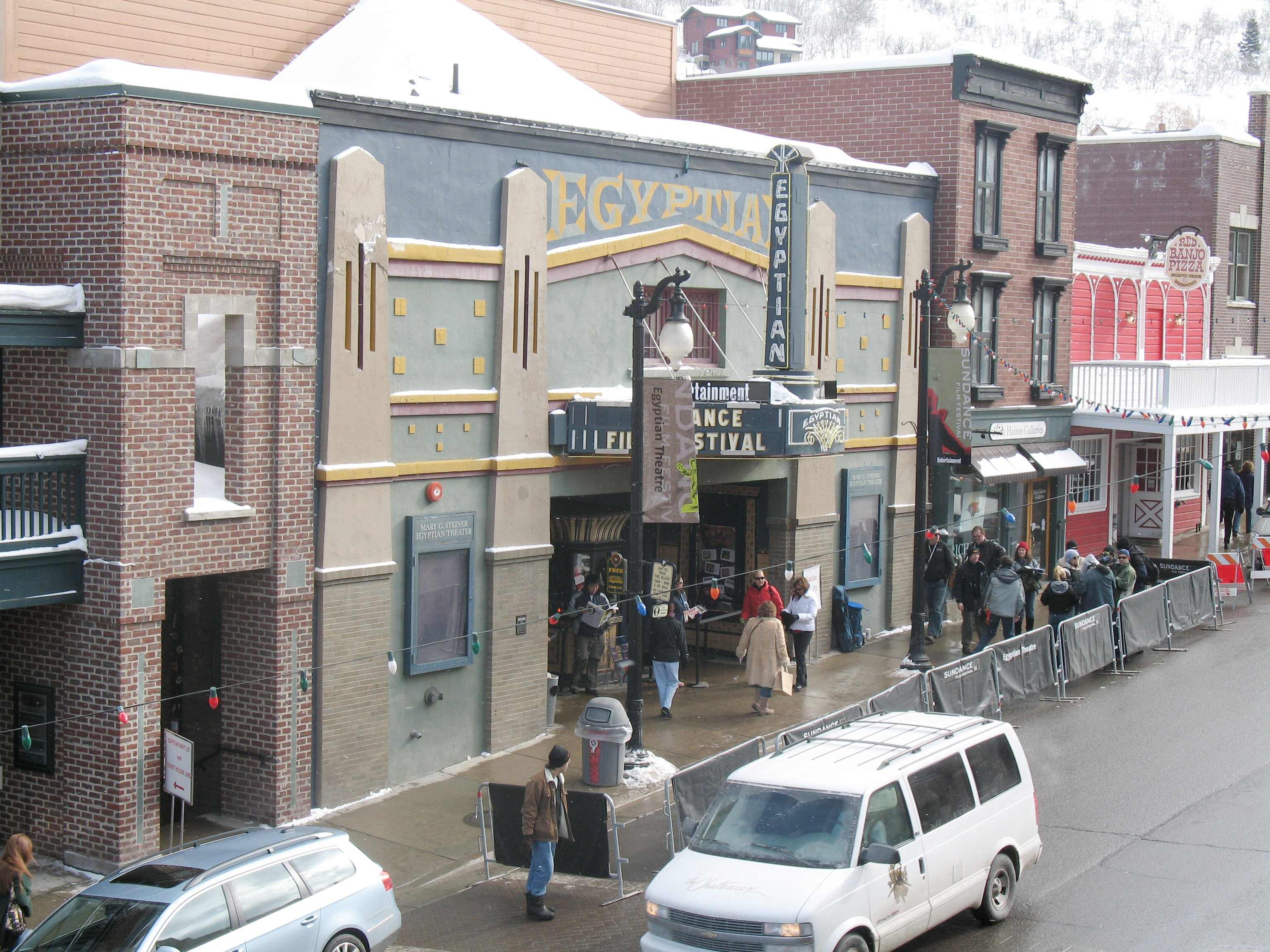 The Mary G. Steiner Egyptian Theatre, located at 328 Main Street in Park City, Utah as seen from the balcony of the Chrysler Lounge.